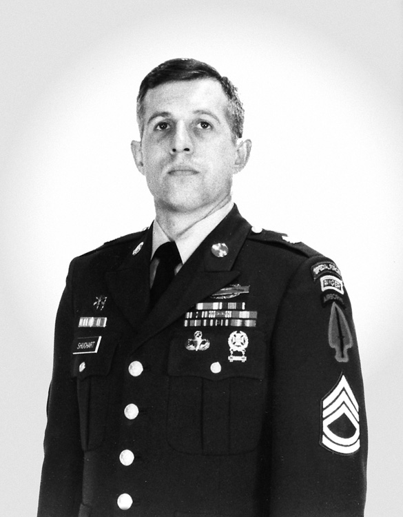 Sgt. First Class Randall 'Randy' David Shughart (August 13, 1958 - October 3, 1993), posthumous recipient of the Medal of Honor.